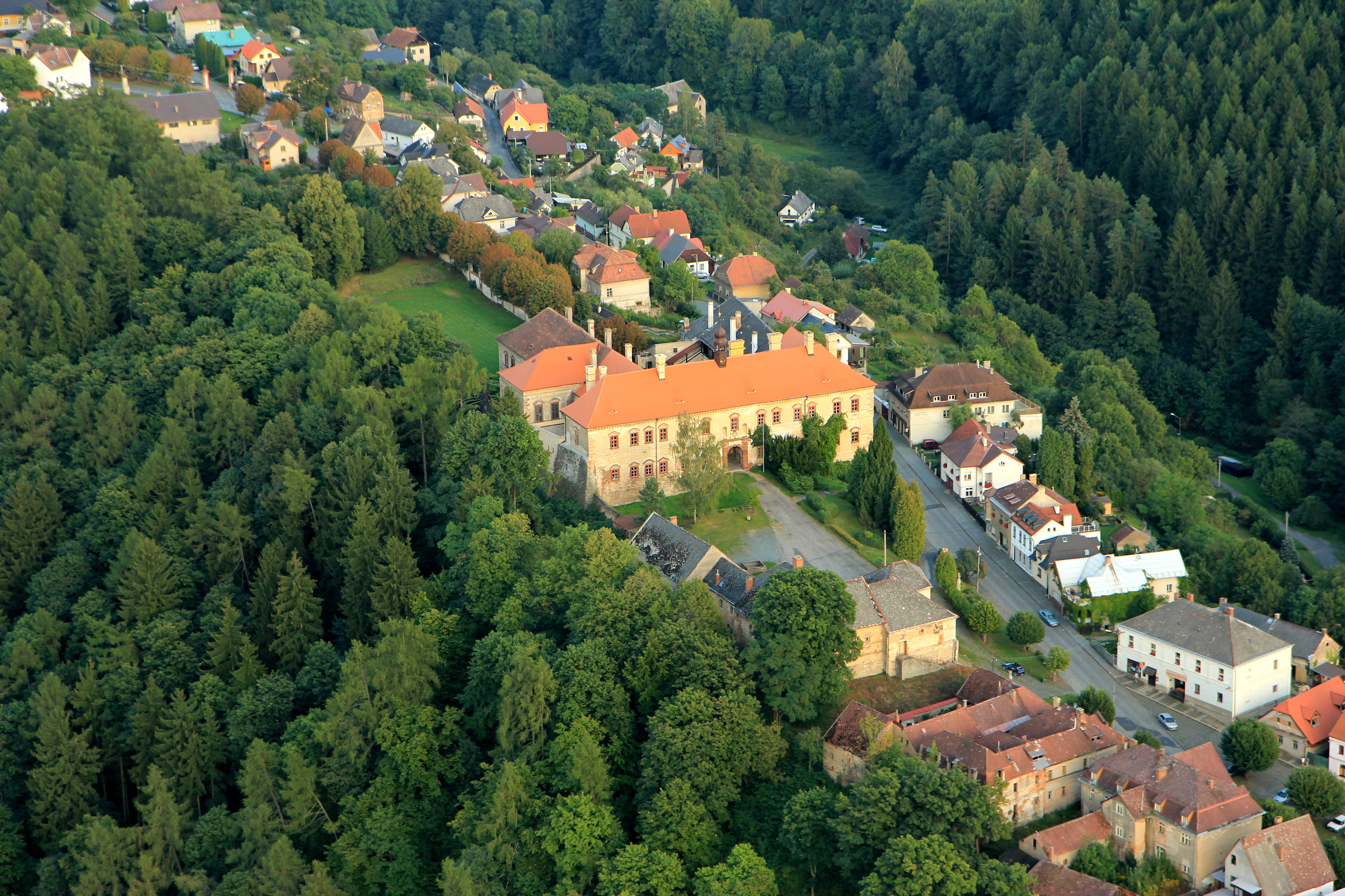 Aerial view of Rataje nad Sázavou castle, Czech Republic